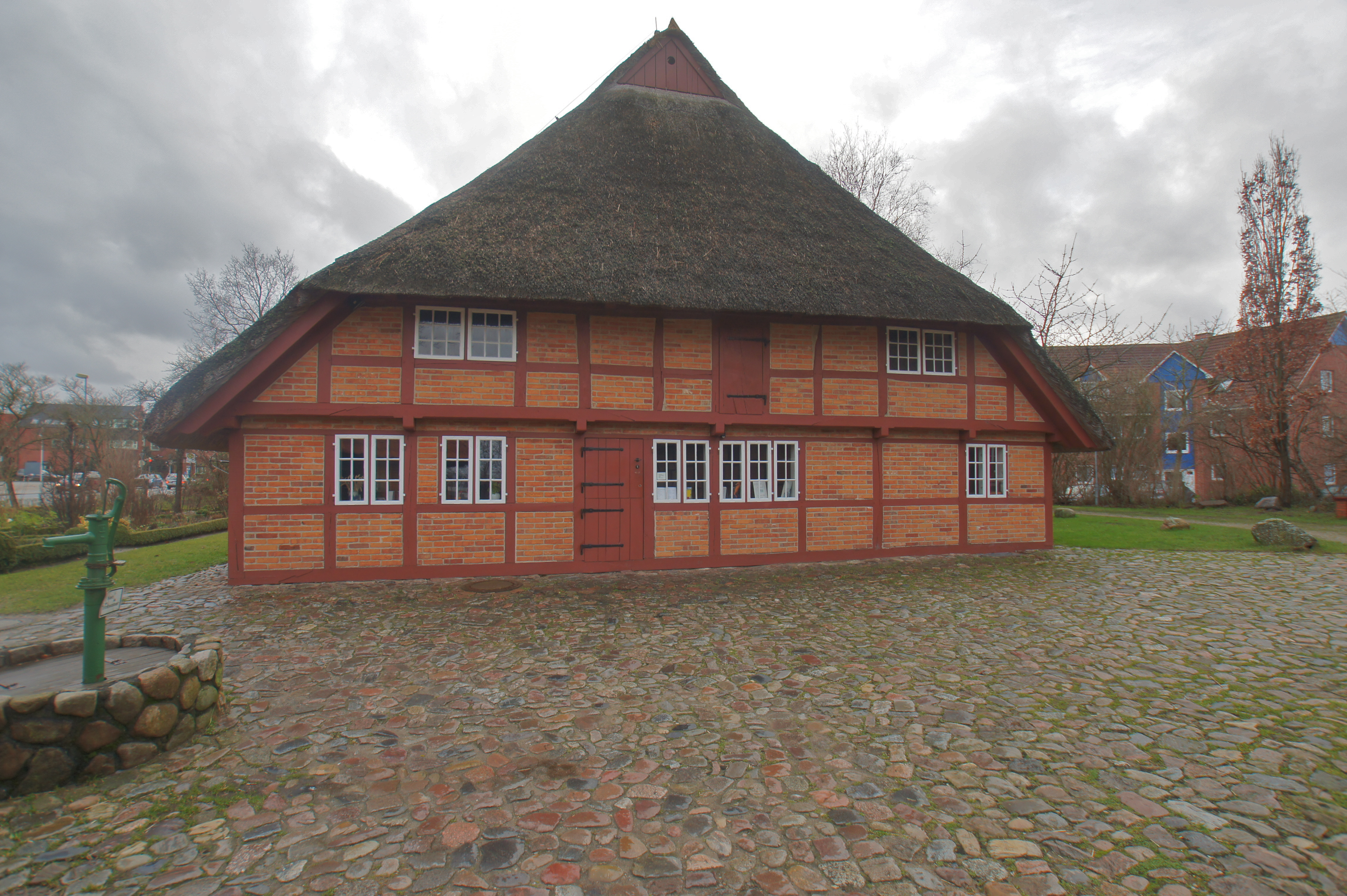 Schönberg (Holstein) (Salzderhelden), Germany: Probsteimuseum